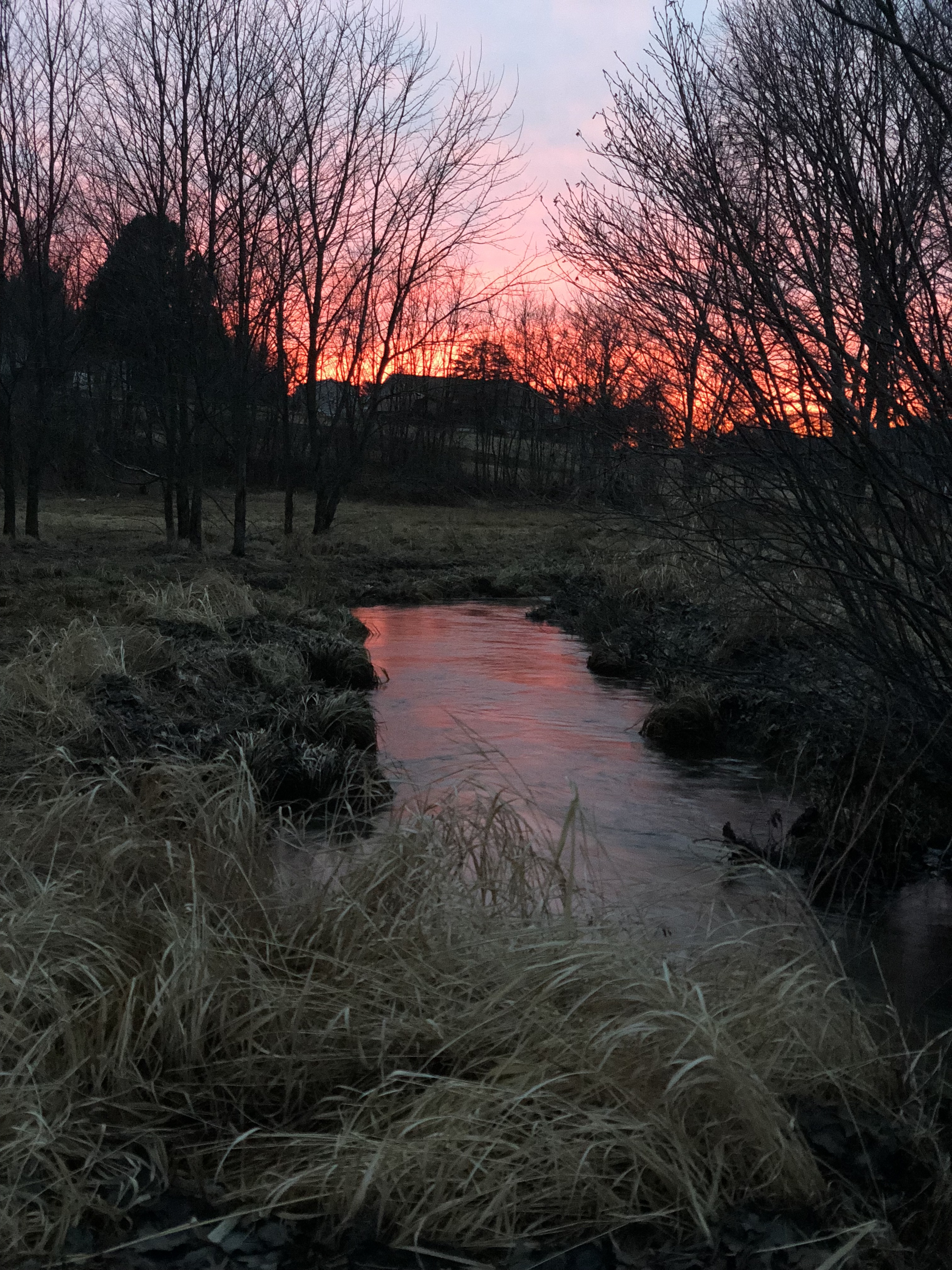 This is a portion of the Wiconisco Creek, where it crosses my property, at sunset in the winter.